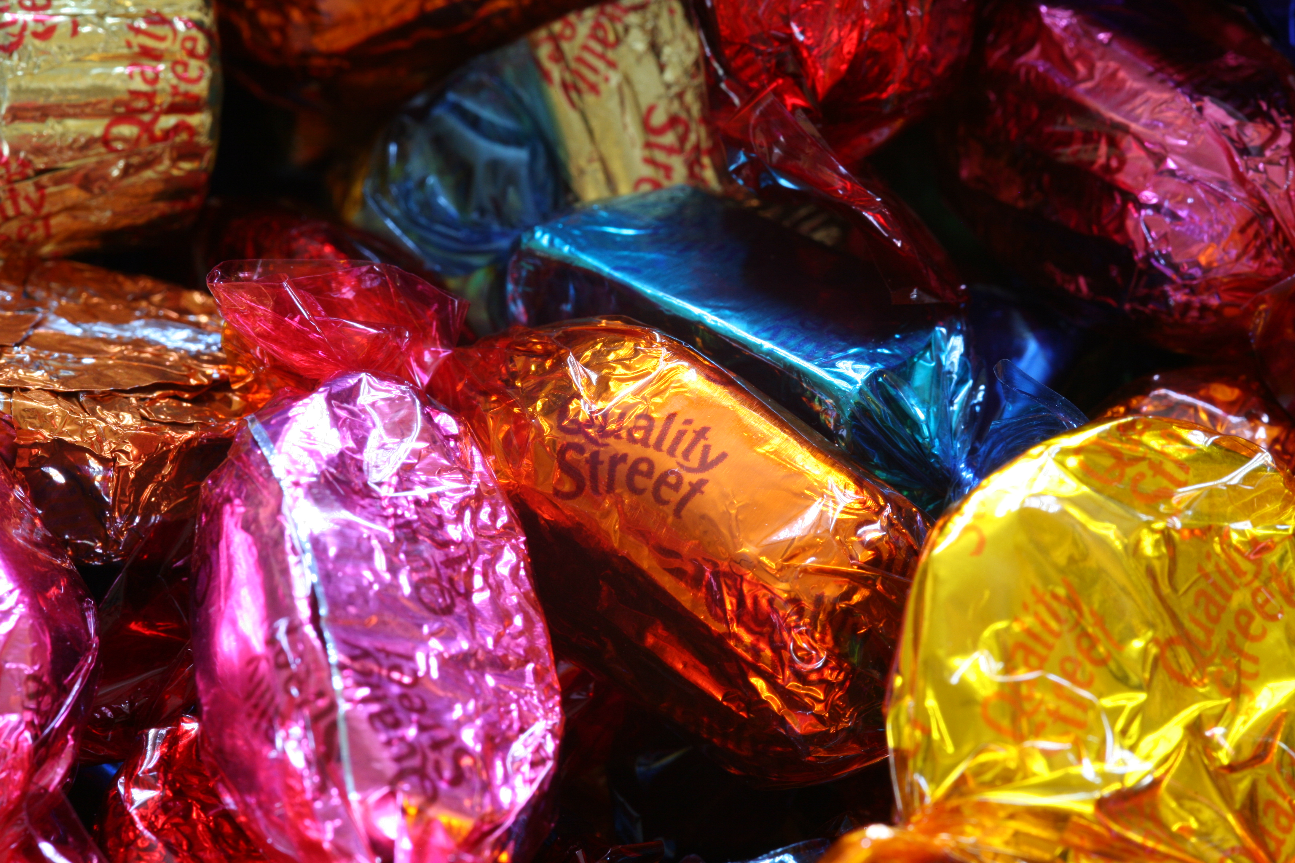 Quality Street Original description: A friend of mine came round the other day whith this huge box of Quality Street chocolates. Since then I can't go to the living room without having a chocolate.